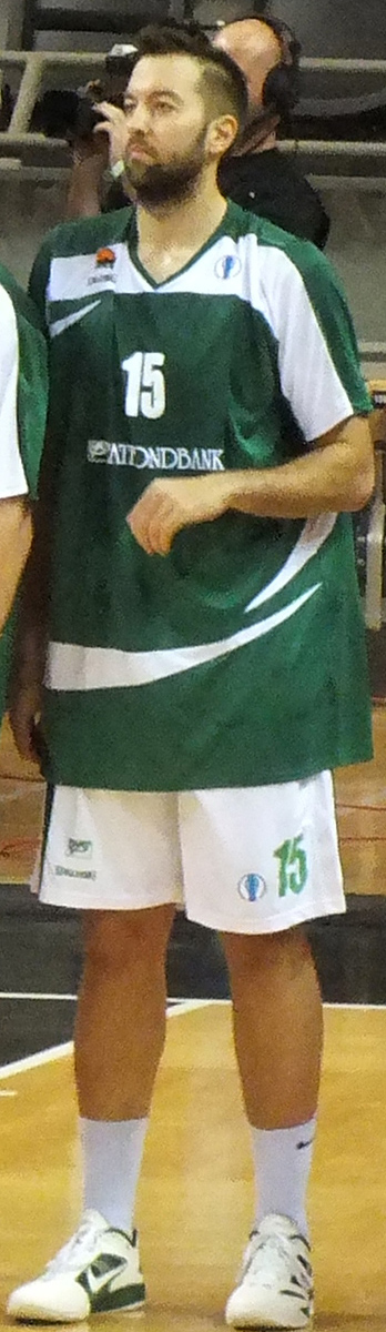 A basketball scene.